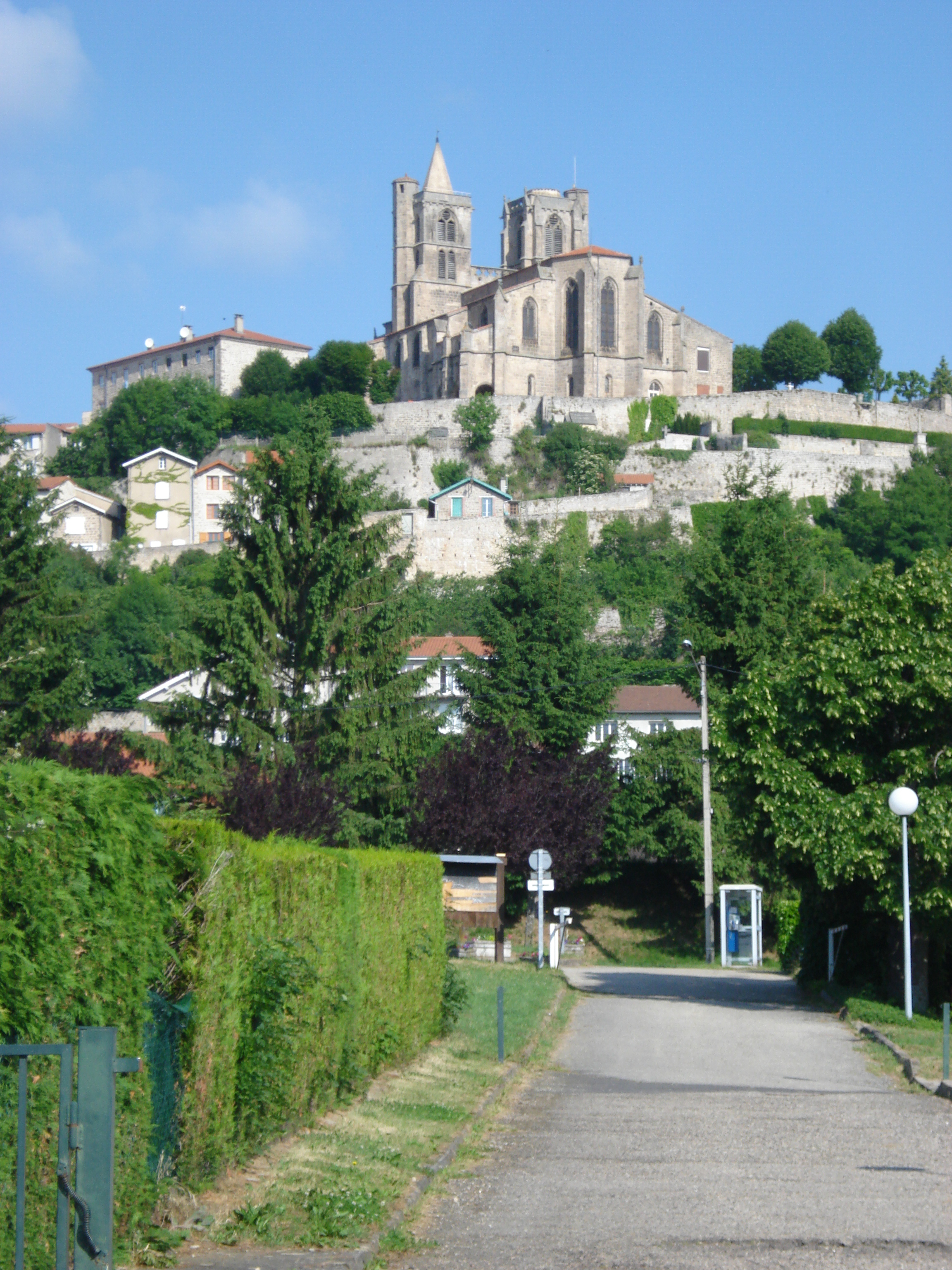 Saint-Bonnet-le-Château (Loire, Fr), general view with church